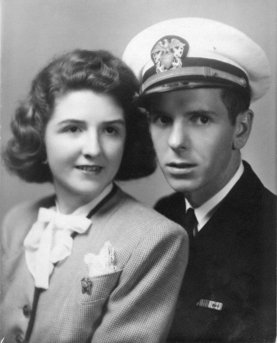 Lieutenant Walter R. Wurzler with his wife Ingeburg, shortly after their wedding in New York, 1942.